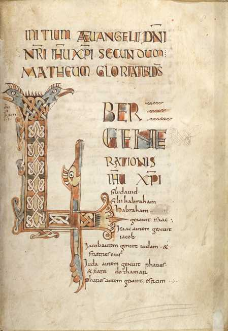 Folio 8r from a Breton Gospel Book (British Library, Egerton 609), Incipi page to the Gospel of Matthew.